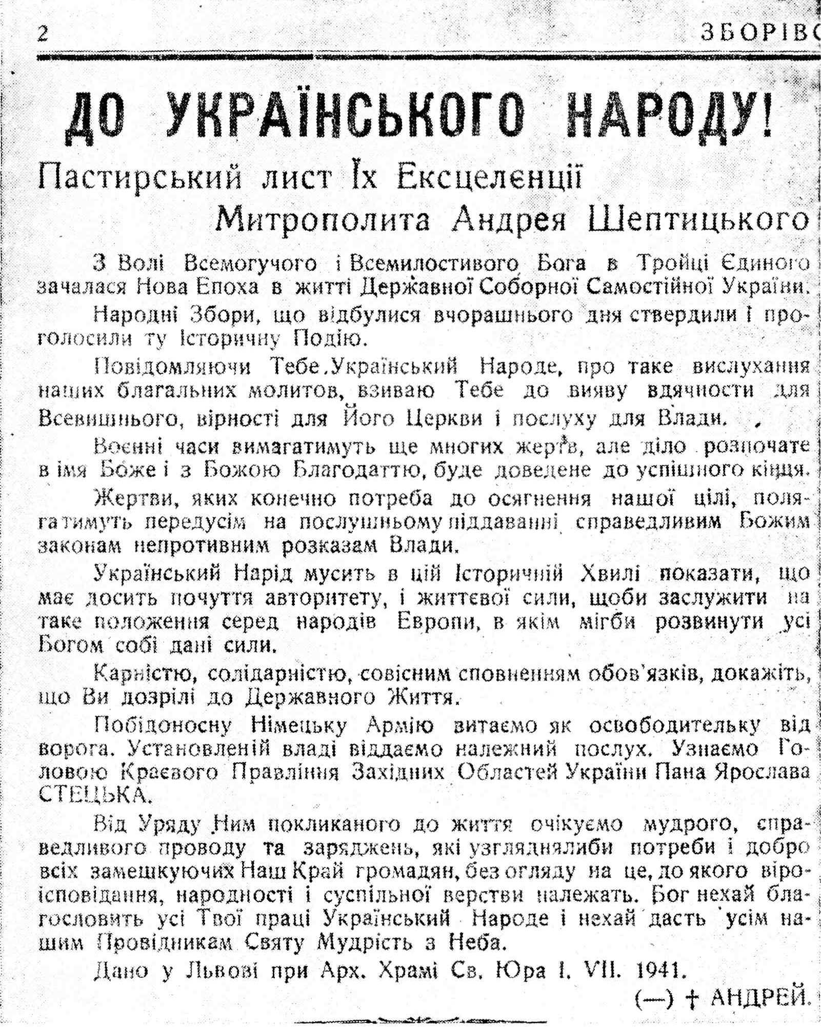 To the Ukrainian people! Their pastoral letter Ekselyentsiyi Andrey Sheptytsky, July 1, 1941